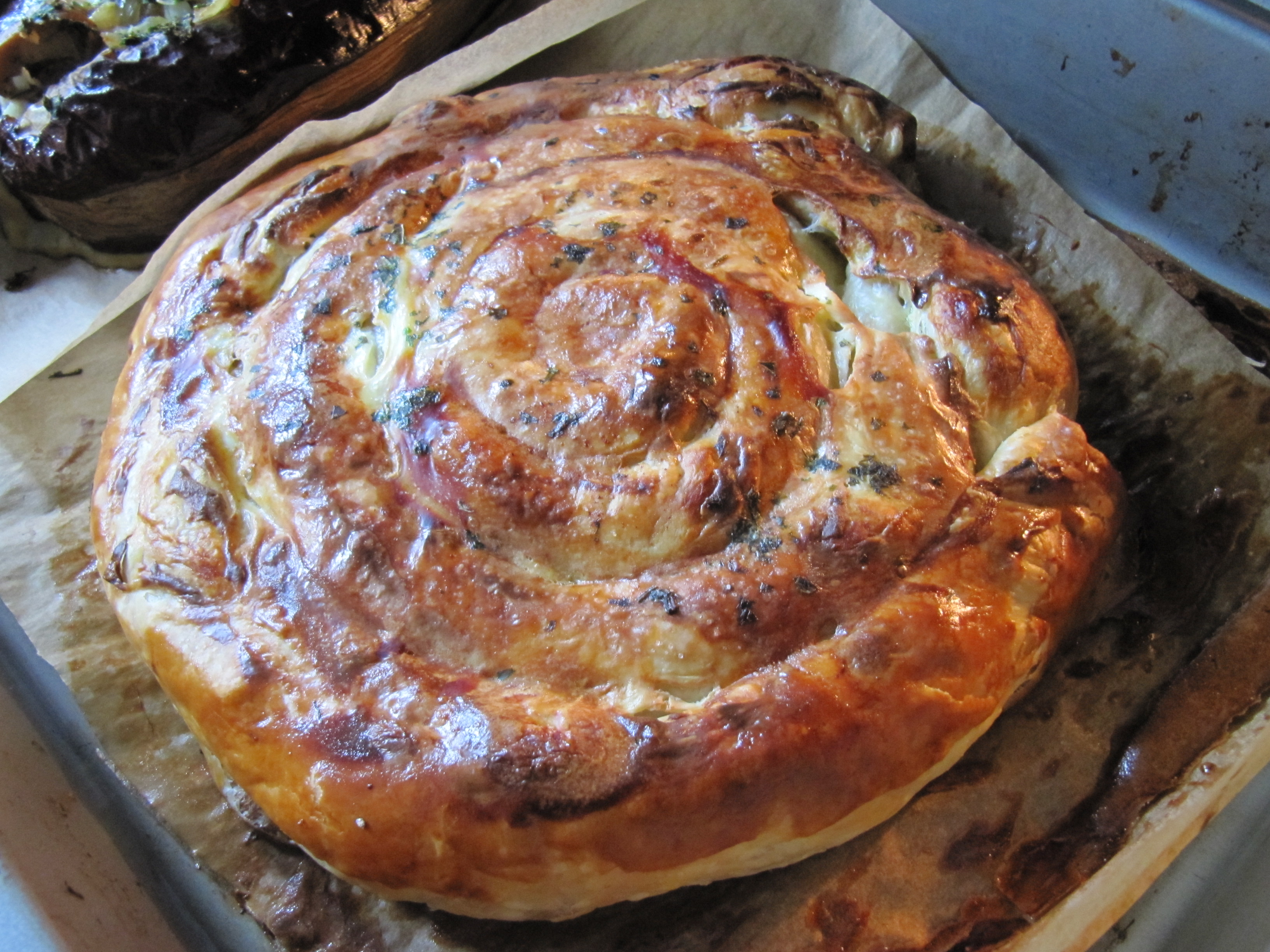 Banitsa